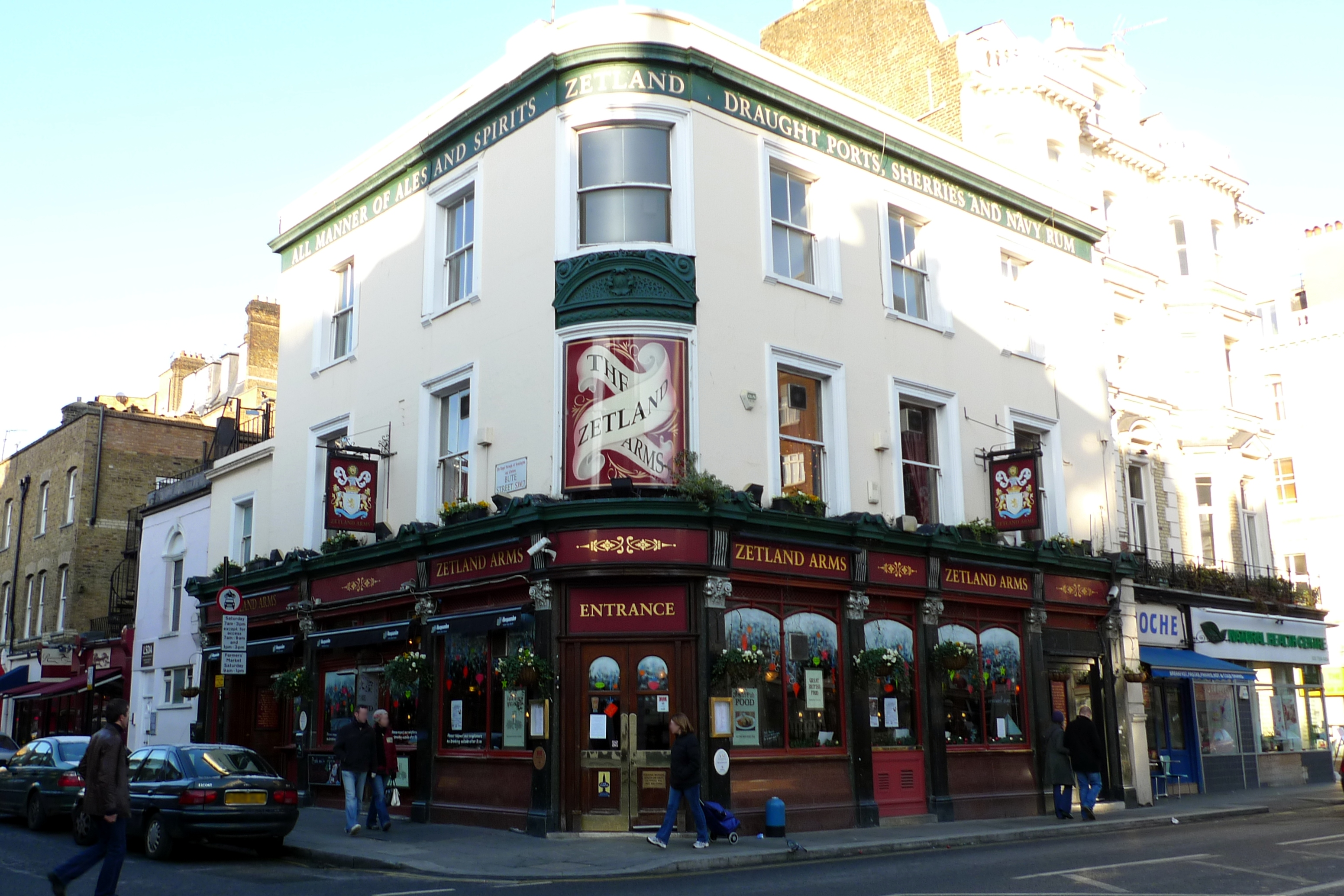 A pub just near South Kensington station. Address: 2 Bute Street. Owner: Spirit Pub Company [Taylor Walker] (website); Punch Taverns [Spirit Group] (former); Watney Combe Reid (former). Links: Fancyapint Beer in the Evening Dead Pubs (history)